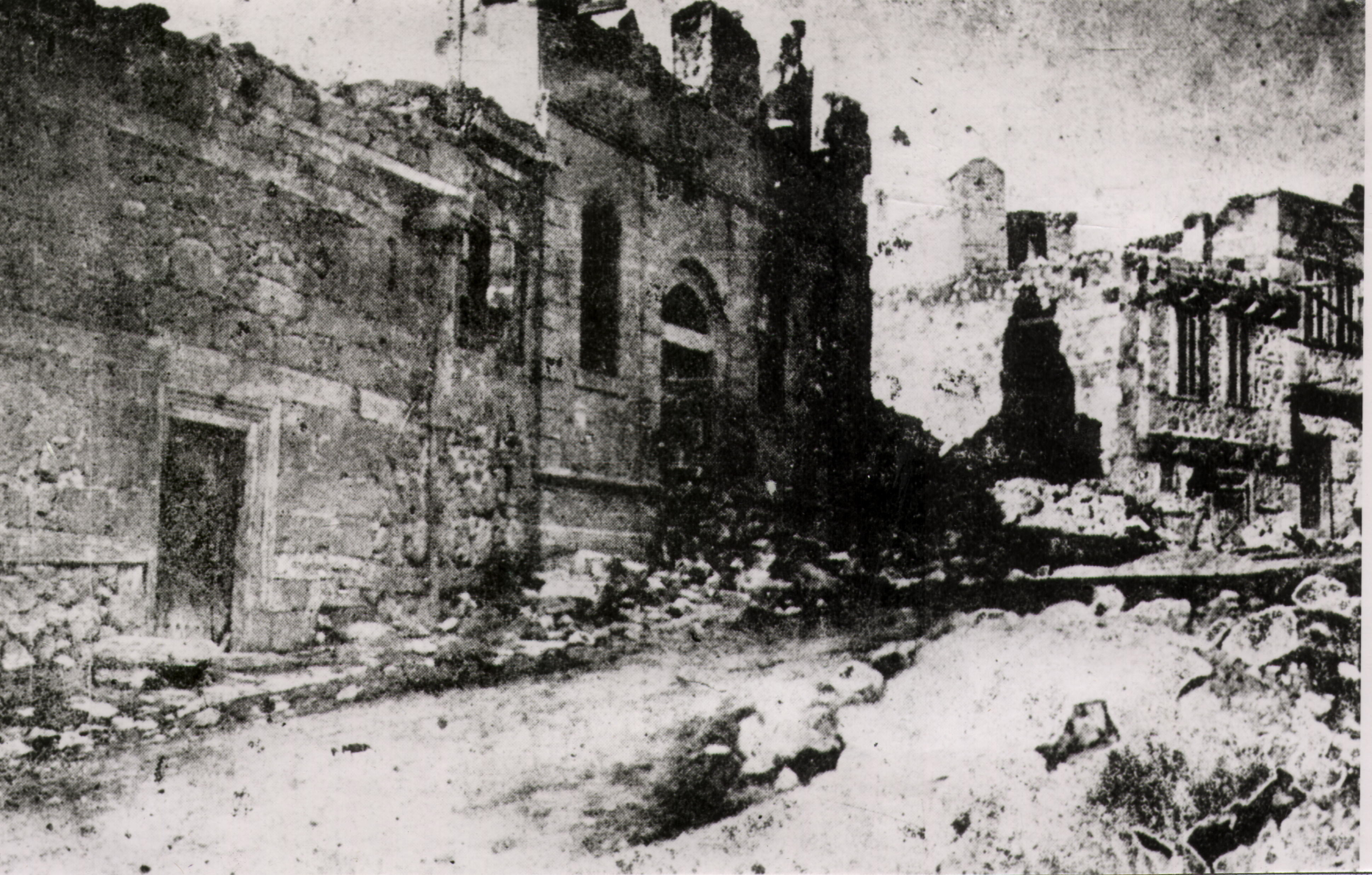 A mansion in Erzurum, in which Turks are being burned by Armenians.